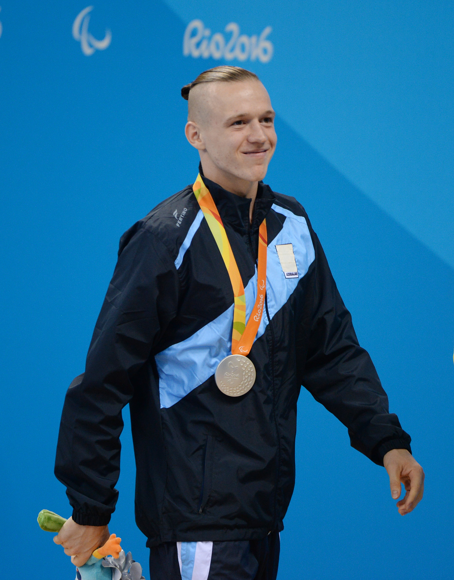 Raman Salei. Swimming at the 2016 Summer Paralympics – Men's 100 metre backstroke S12